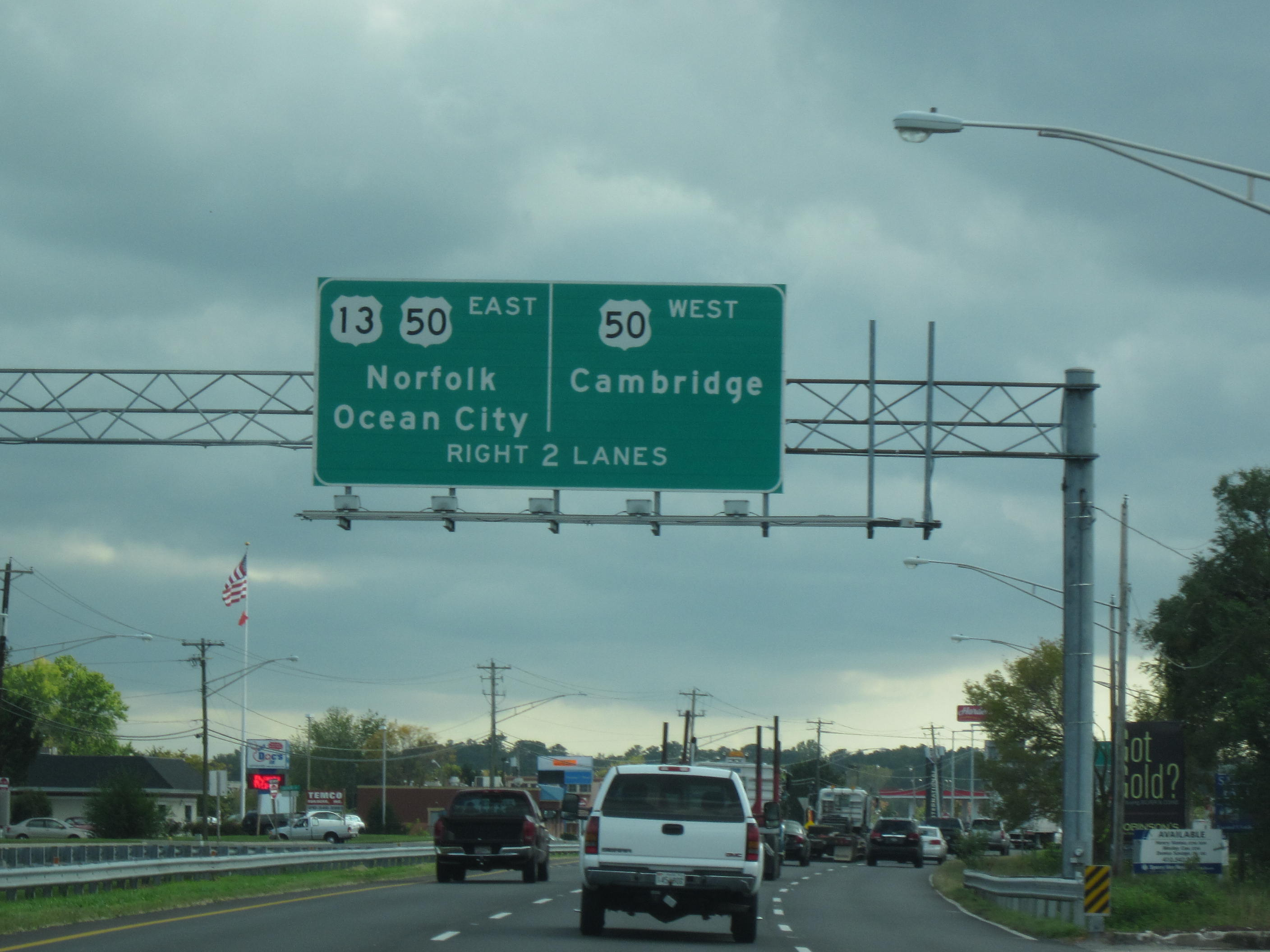 US Route 13 - Maryland